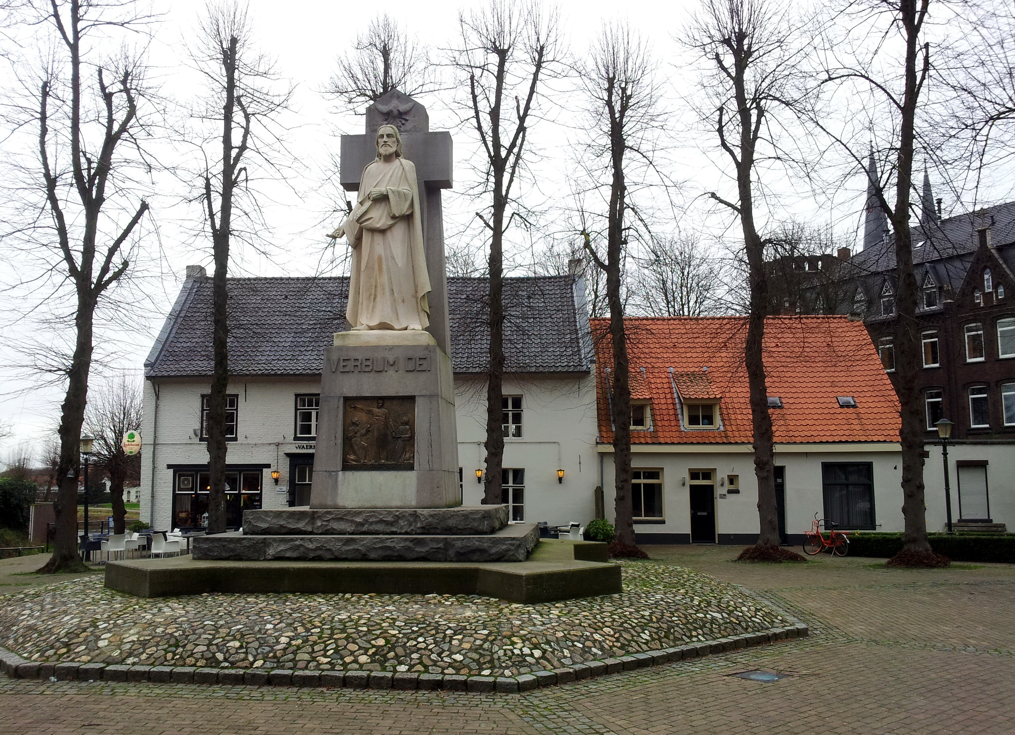 View of a statue at the intersection of Sint Michaelstraat and Veerweg in Steyl, Limburg, the Netherlands. The statue represents Jesus Christ as the Word of God (Verbum Dei), the name of the RC missionary congregation that was founded here in 1875 (Societas Verbi Divini).